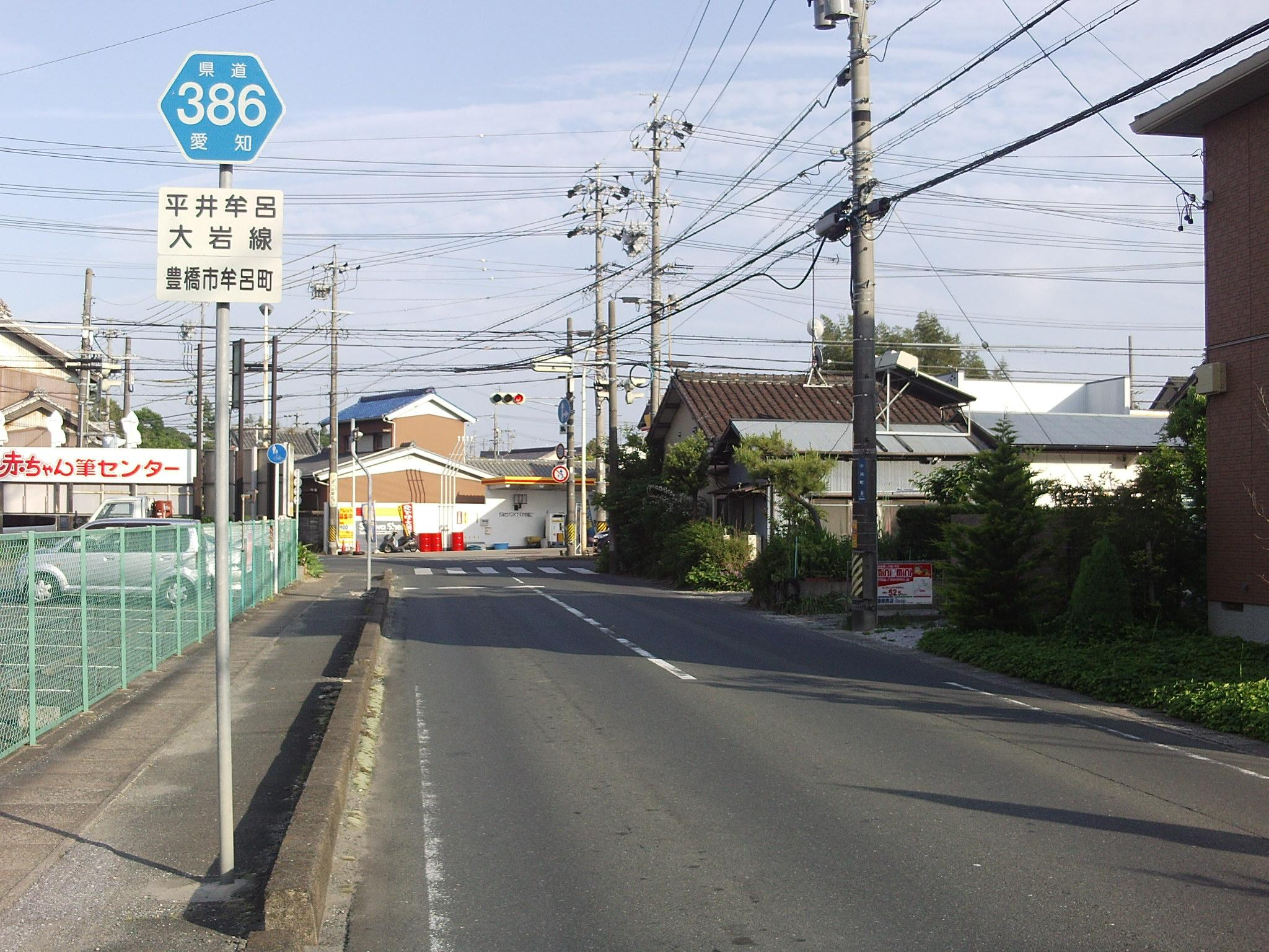 The Aichi Prefectural Road Route 386 in Murocho, Toyohashi City